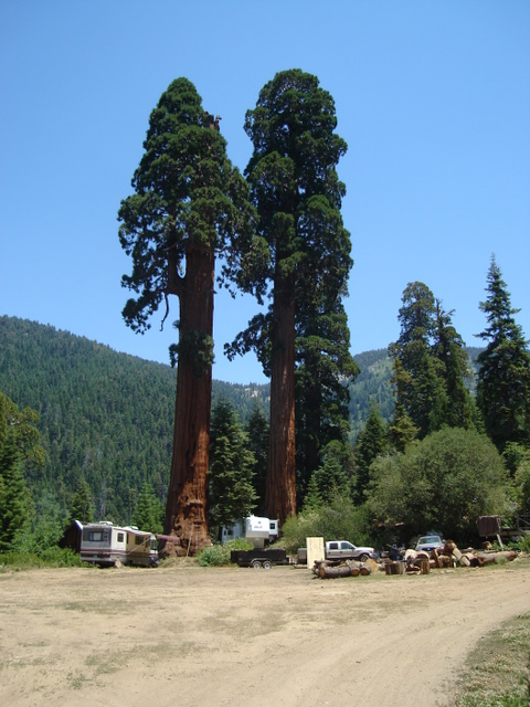 Two giant sequoias in the Alder Creek Grove of the Giant Sequoia National Monument, California